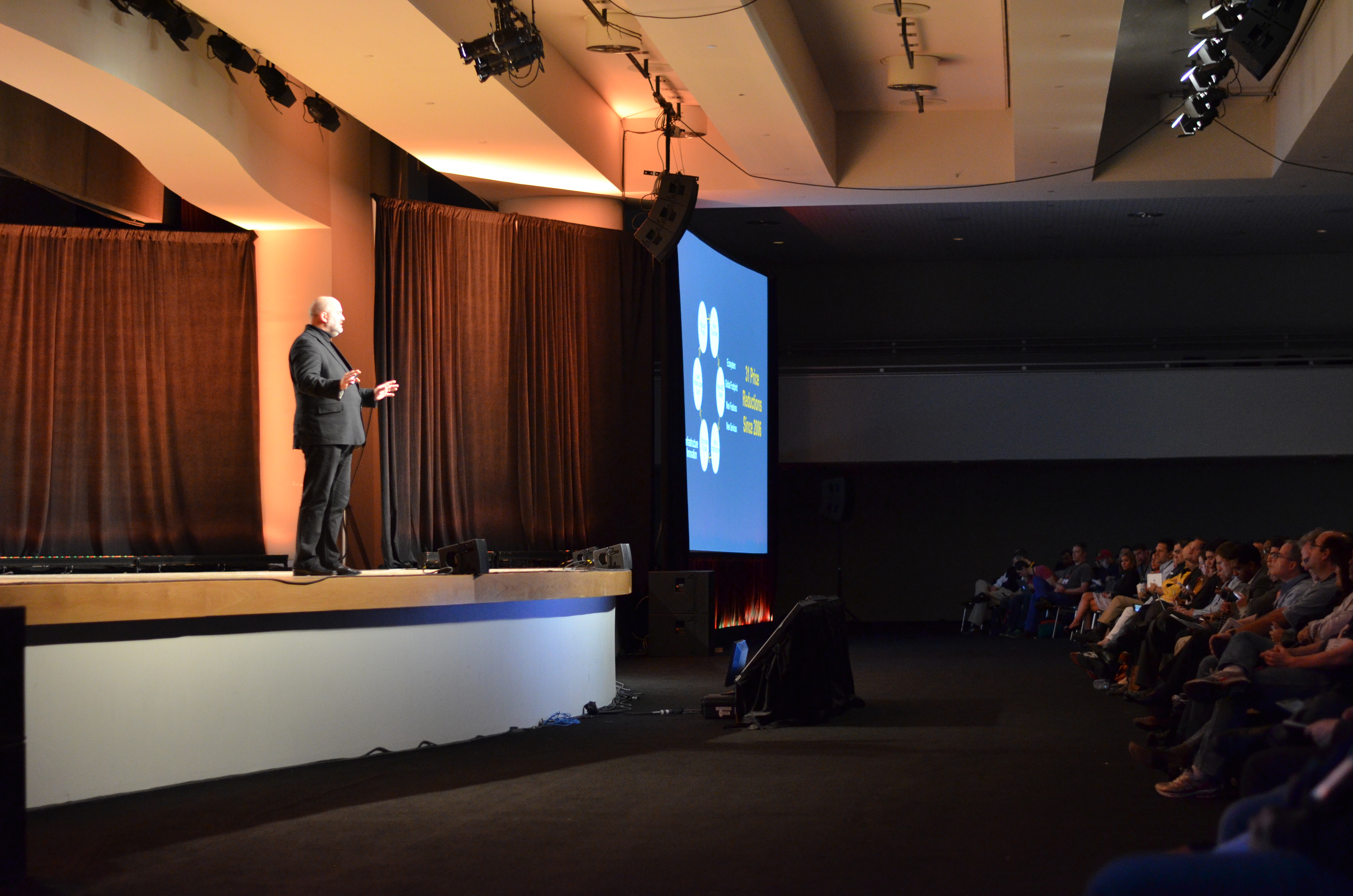 31 price reductions in Amazon Web Services since 2006, announced by Werner Vogels.